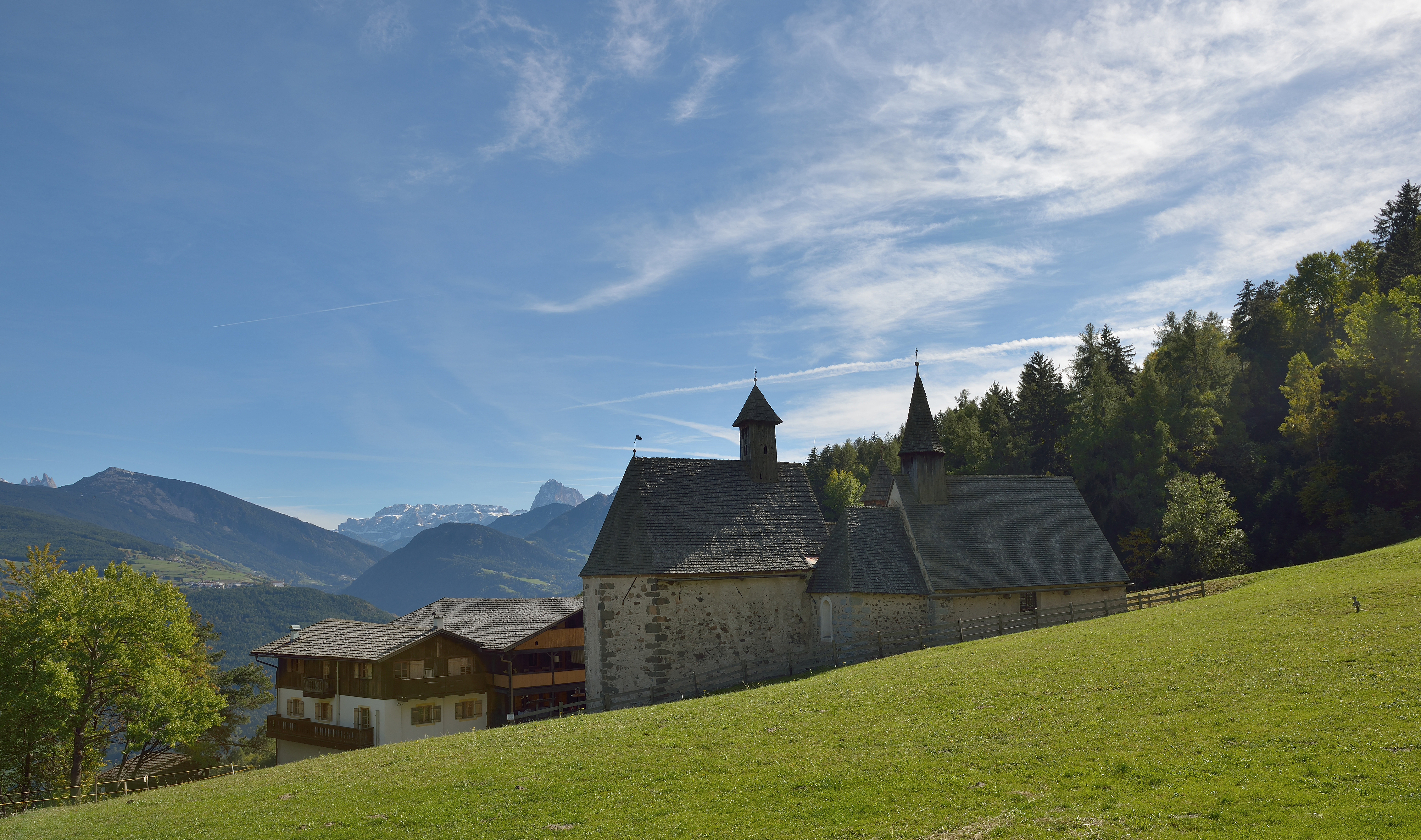 "Bad Dreikirchen" Inn and St. Gertraud, St. Nikolaus, St. Magdalena in Dreikirchen, Barbian from the south